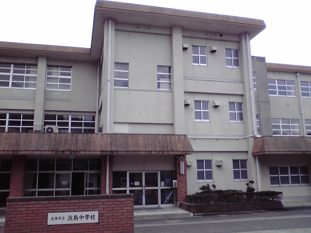 This is a junior high school in Shima,Mie,Japan.